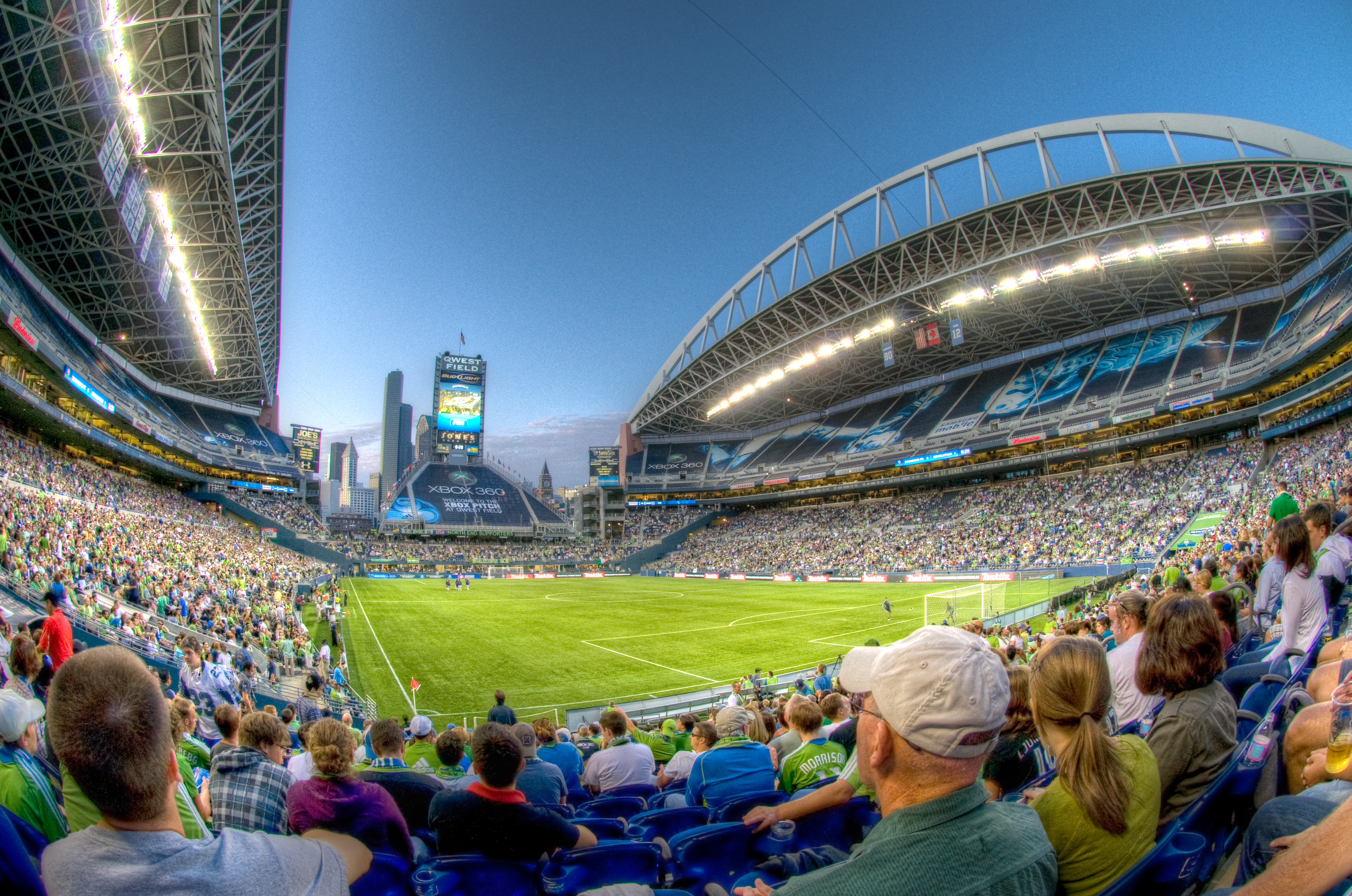 HDR image of inside Qwest Field from the Southwest corner during a MLS Seattle Sounders FC Match.